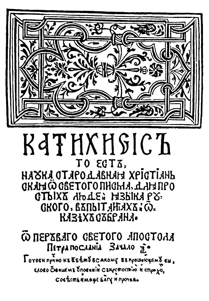 Catechism printed in Niasvizh, Belarus